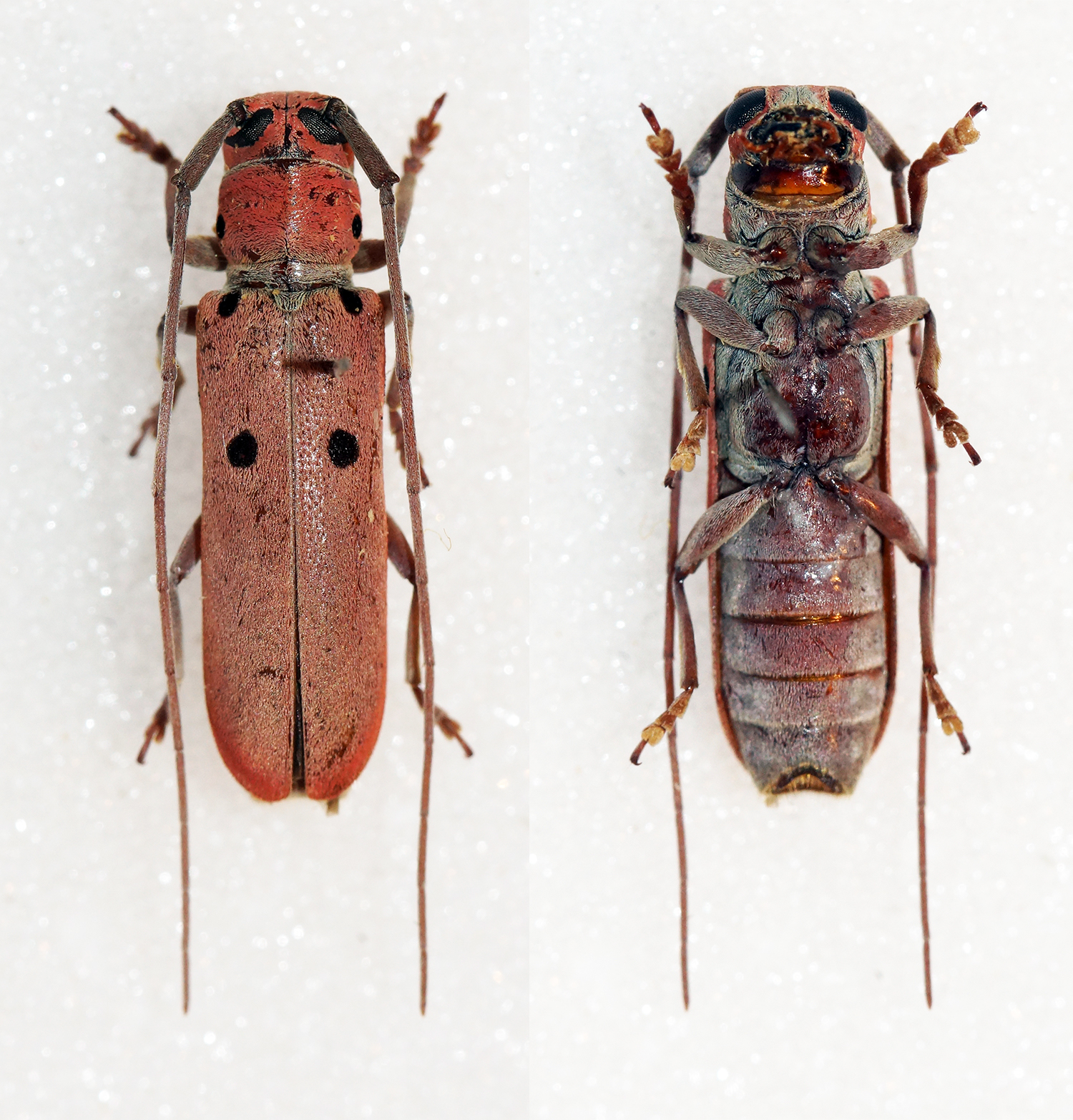 Breuning,1936 Sex: Male Data: 13-12-09 - 25km East Tshipise - Nwanedi NR - Limpopo prov - RSA Size: 13mm